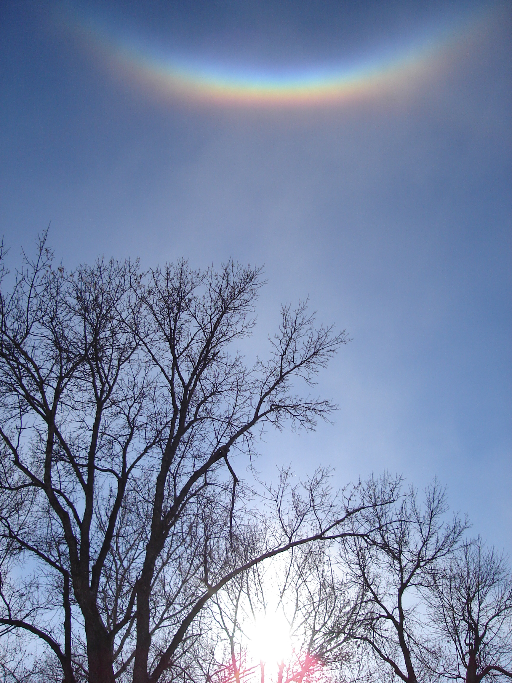 Taken over Grand Forks, ND on 31 January 2007. The perspective with the sun shows the high angle the circumzenithal arc is found in the sky.